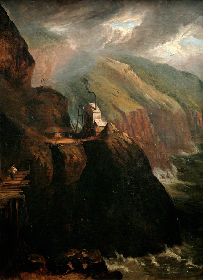 Botallack Mine